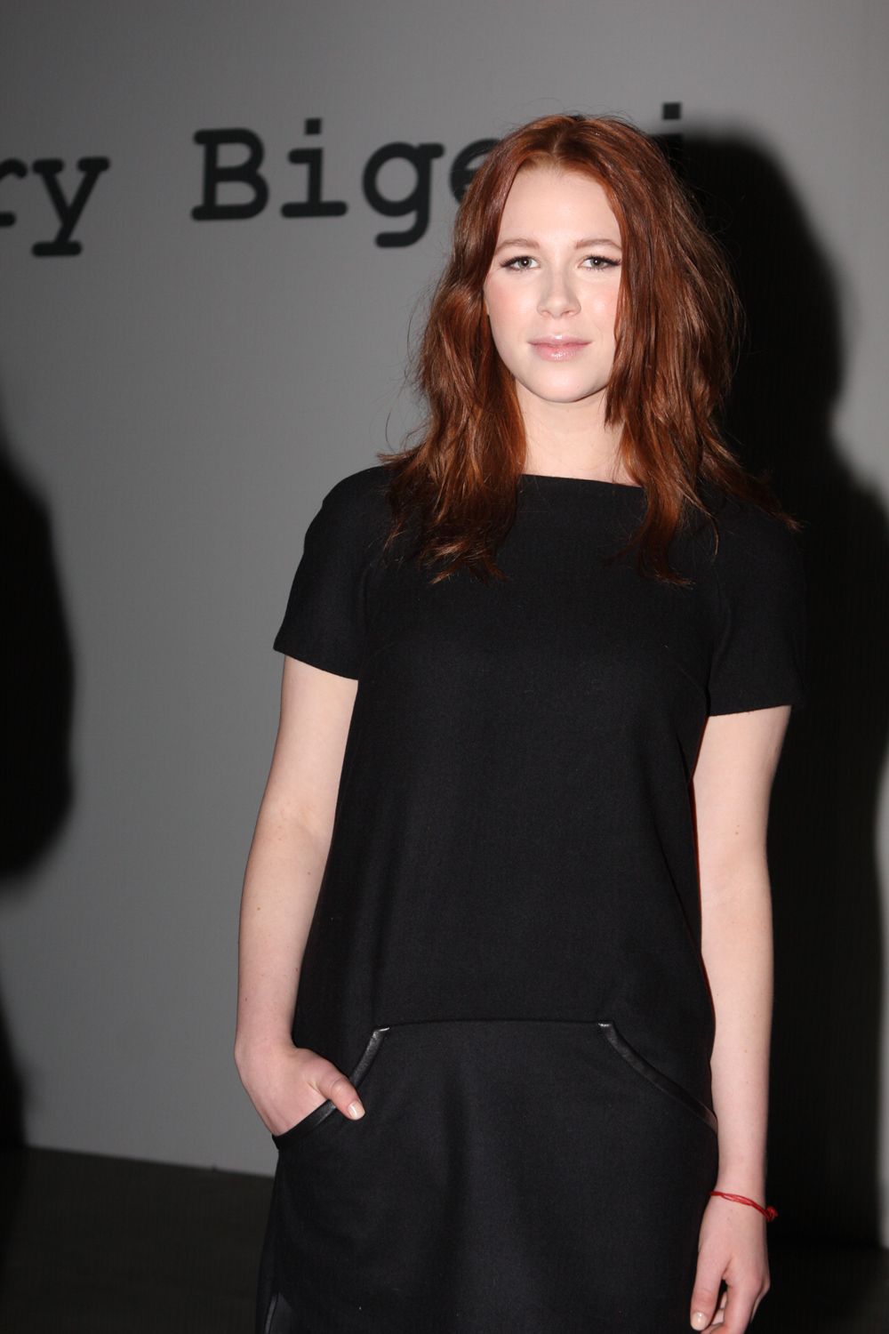 Mercedes-Benz Fashion Week; Cruise Bar hosts famous fashion event; MBFWA business wheels in motion